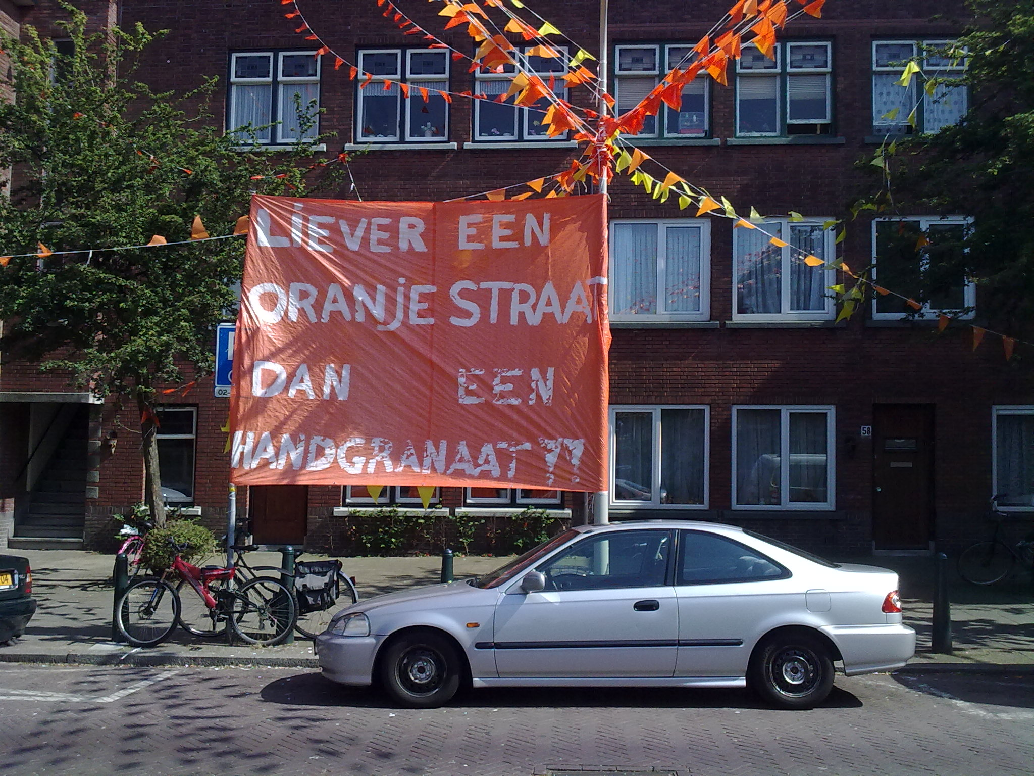 Antheunisstraat in The Hague: We prefer an orange street over a handgranate